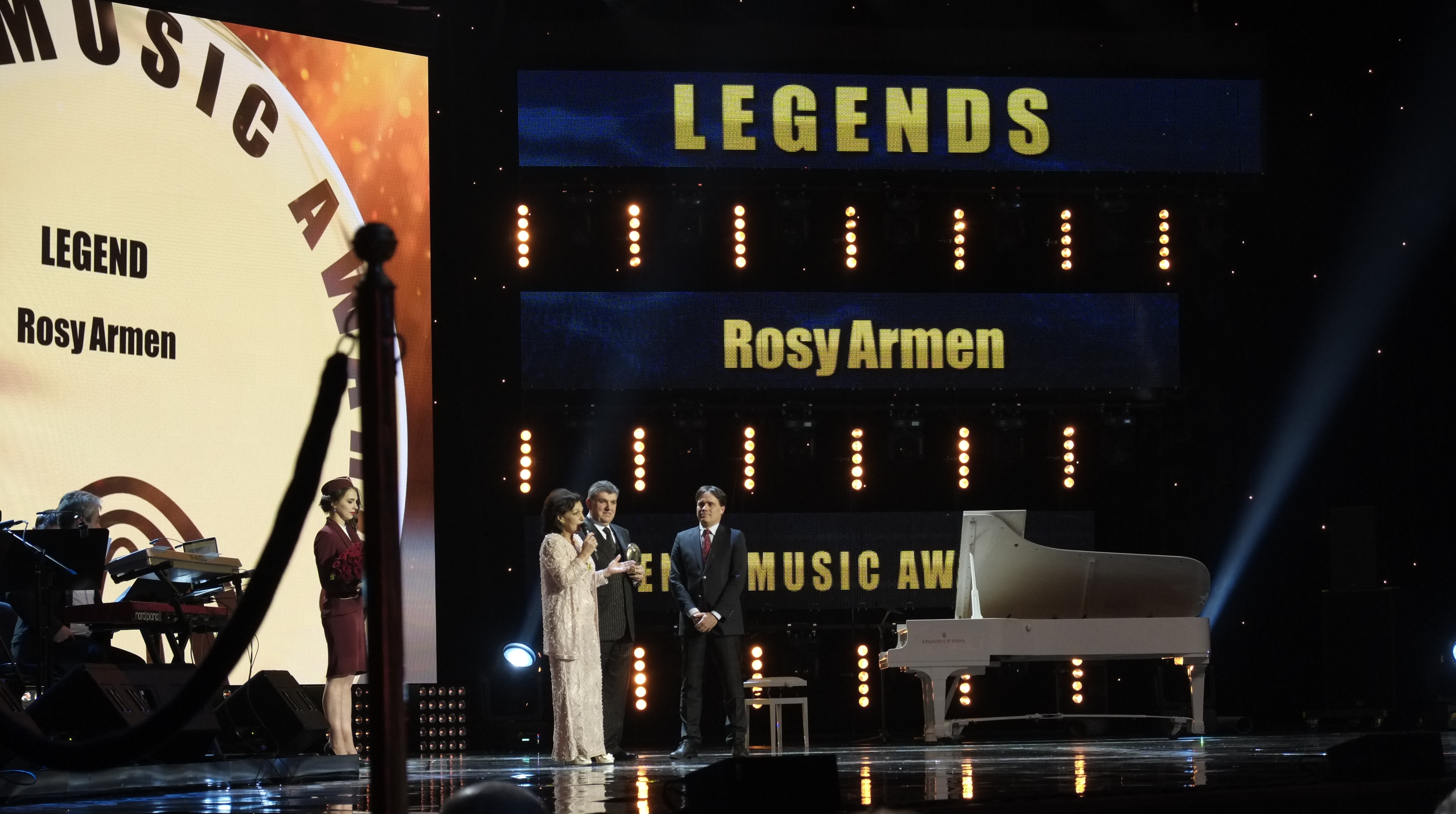 Music Awards in april 2015 - Moscow.